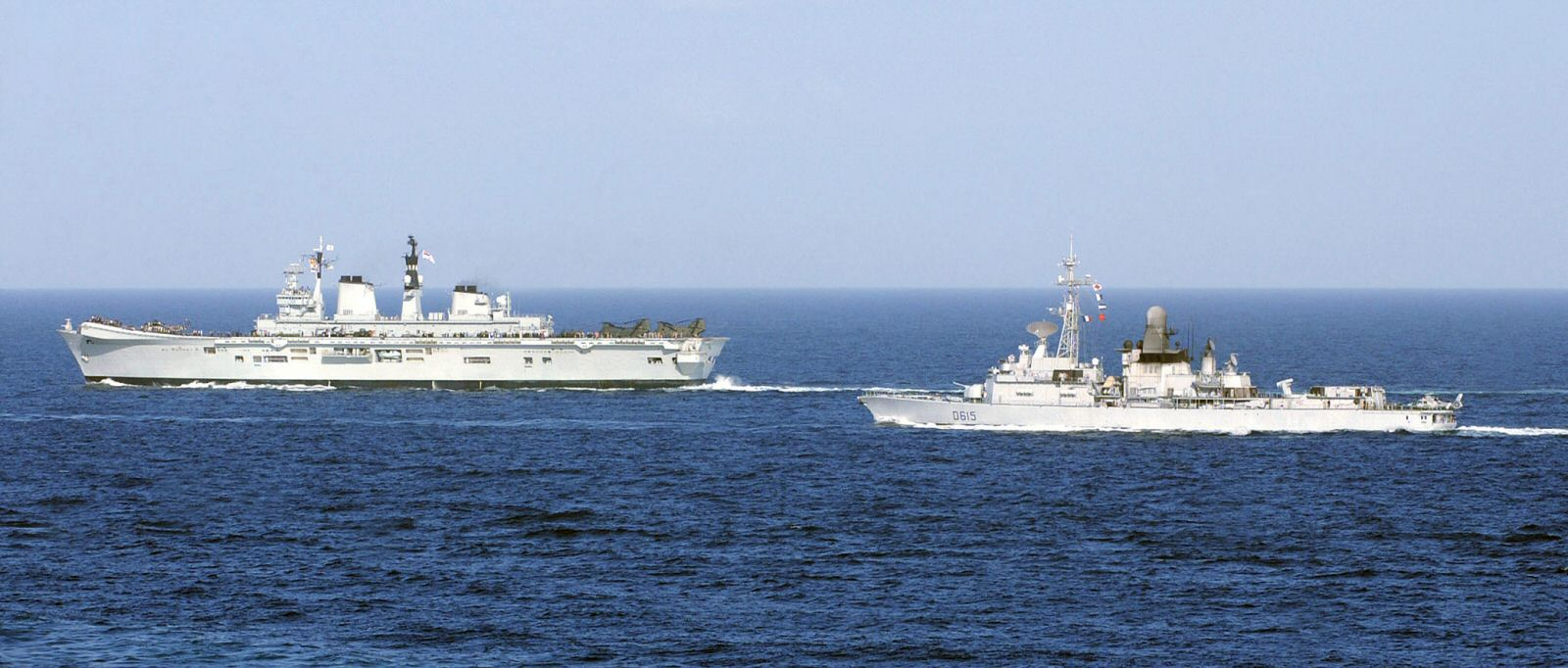 Original description: Port side view of the Royal Navy INVINCIBLE Class (CV) Aircraft Carrier Her Majestys Ship (HMS) ILLUSTRIOUS (R 06) underway through the Arabian Sea followed by the French Cassard Class Destroyer JEAN BART (D 615) during Operation ENDURING FREEDOM. Camera Operator: PH3 TRAVIS ROSS, USN Date Shot: 1 Feb 2002. ID: DNSD0500564 020201N1056R502. Source: resized hi-res picture from